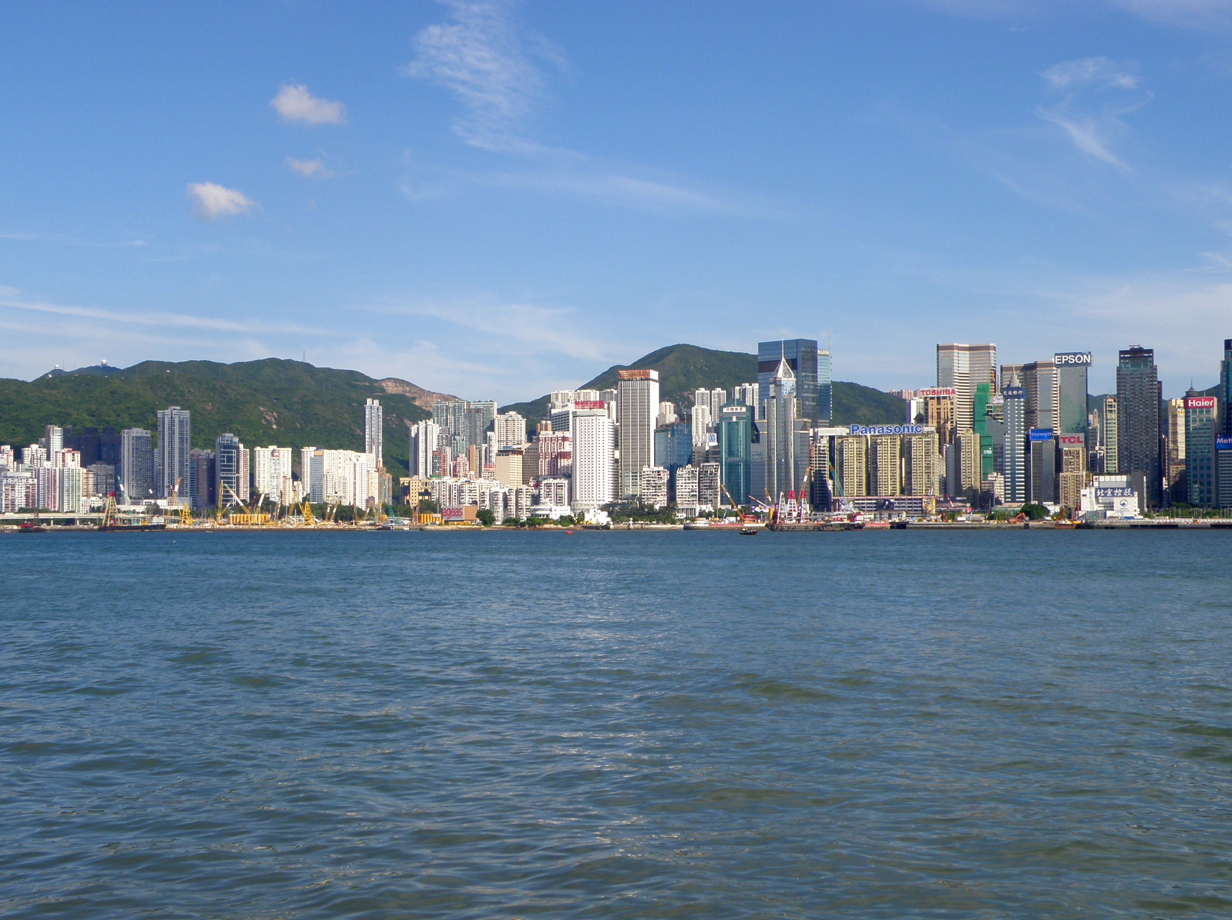 Causeway Bay in Hong Kong Island, Hong Kong.